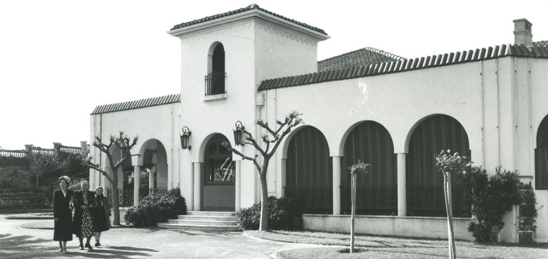 View of front entrance to War Memorial Town Hall